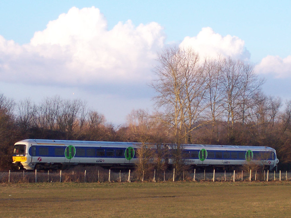 A First Great Western two-car Class 165 diesel multiple unit on the Marlow Branch Line.